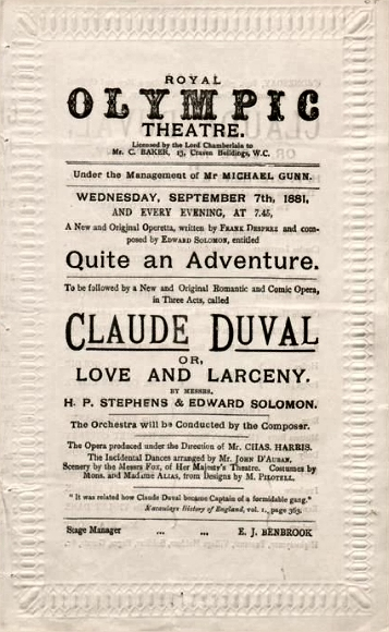 Scan of 1881 theatre programme for Quite an Adventure and Claude Duval. Public domain.